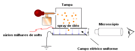 experiência de milikan